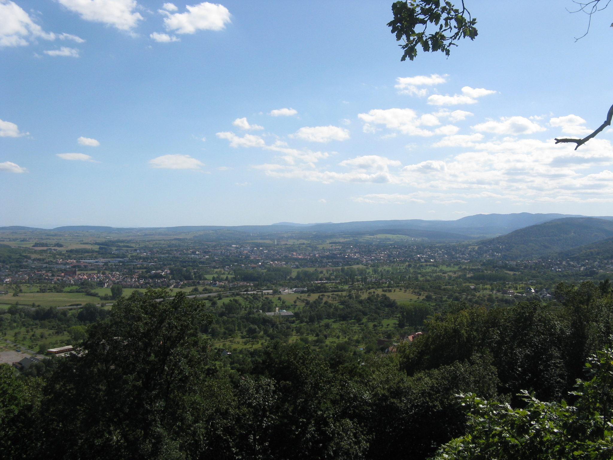 St. Jean Saverne (Alsace), view from St. Michaels Mount